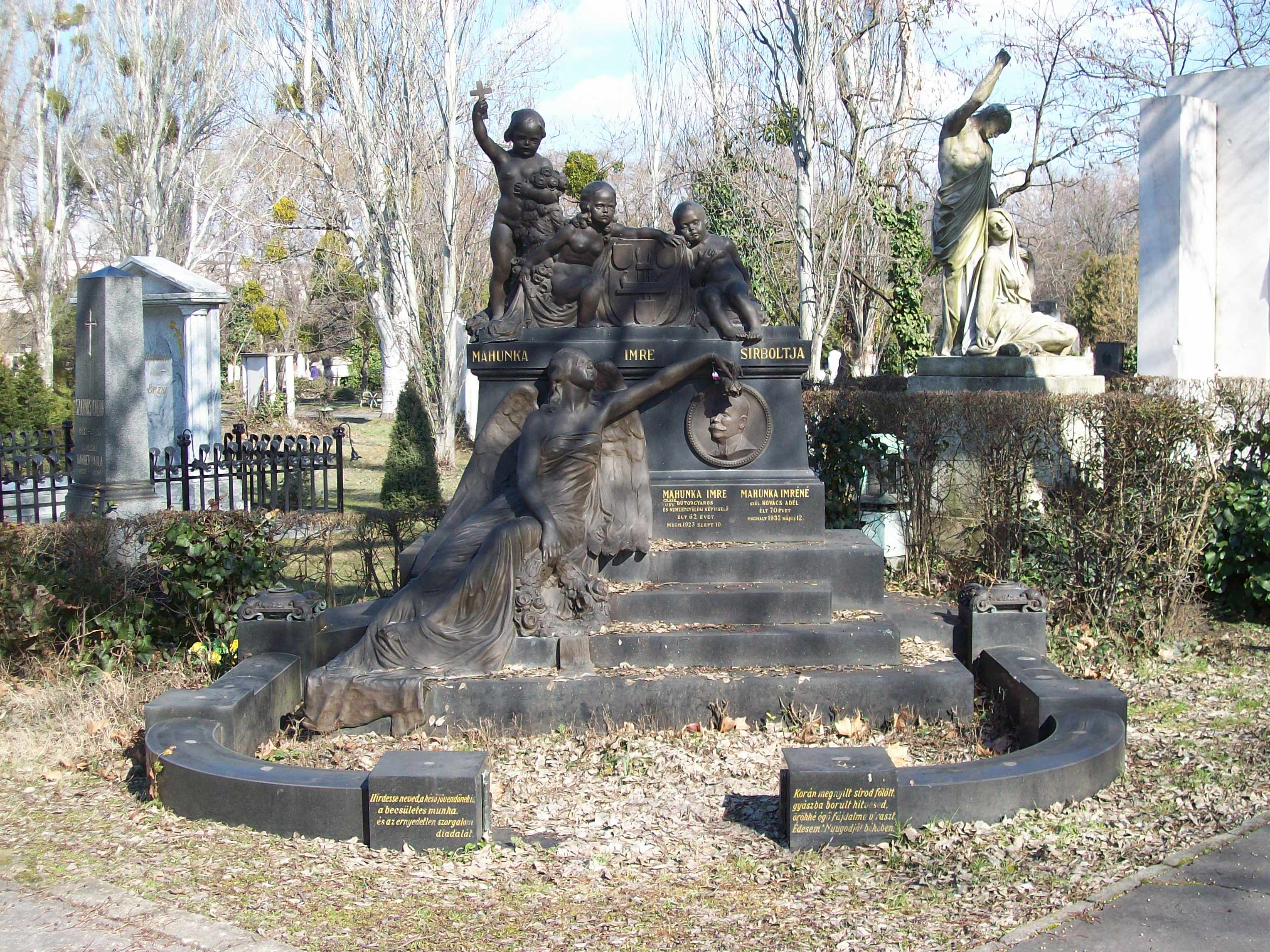 Imre Mahunka's grave in Kerepesi Cemetery.